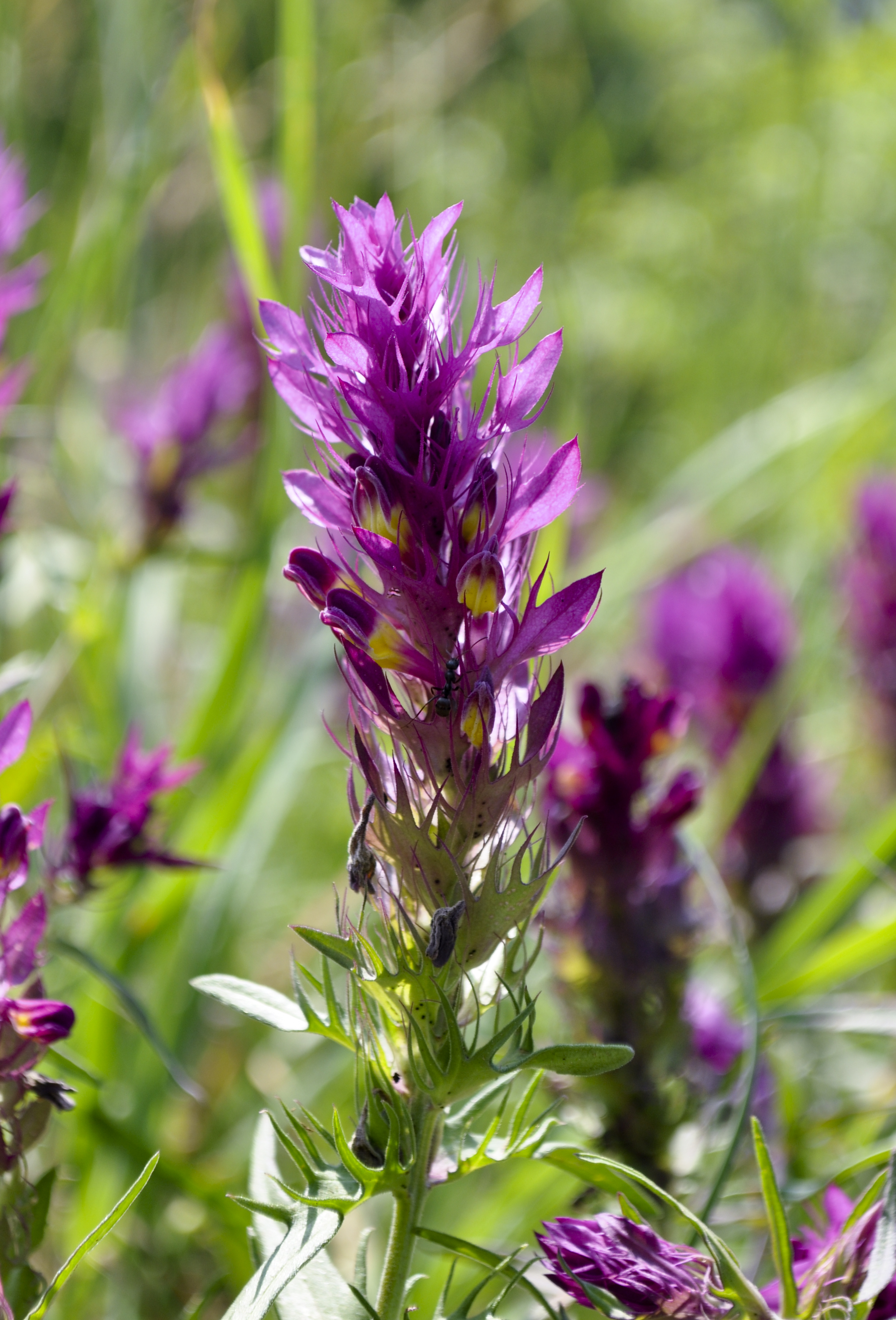 Melampyrum arvense in Bohemian Karst